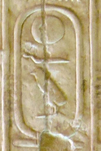 Cartouche 21, Abydos King List. Temple of Seti I, Abydos, Egypt